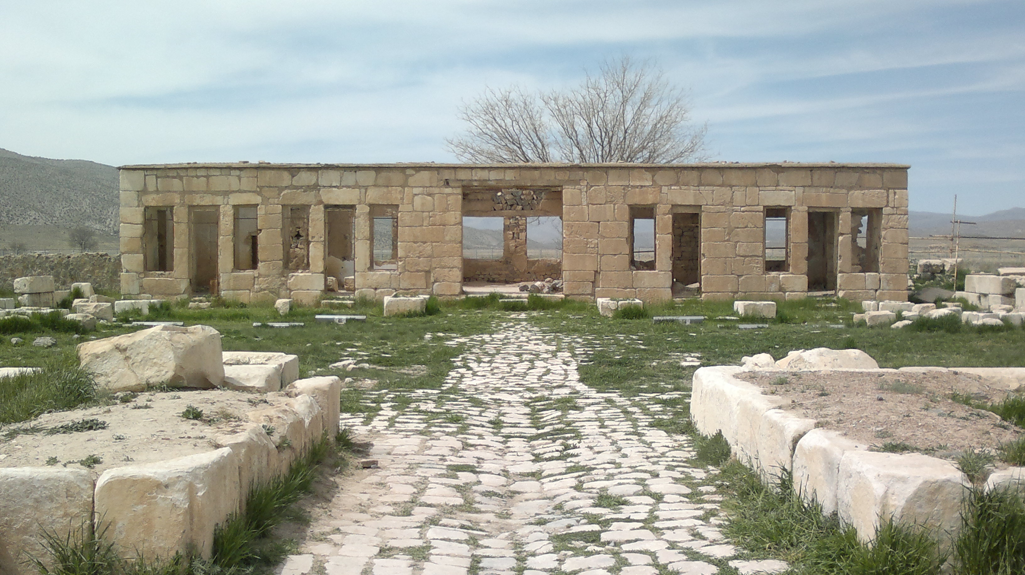 Karvansaraye Mozaffari placed in Pasargadae.